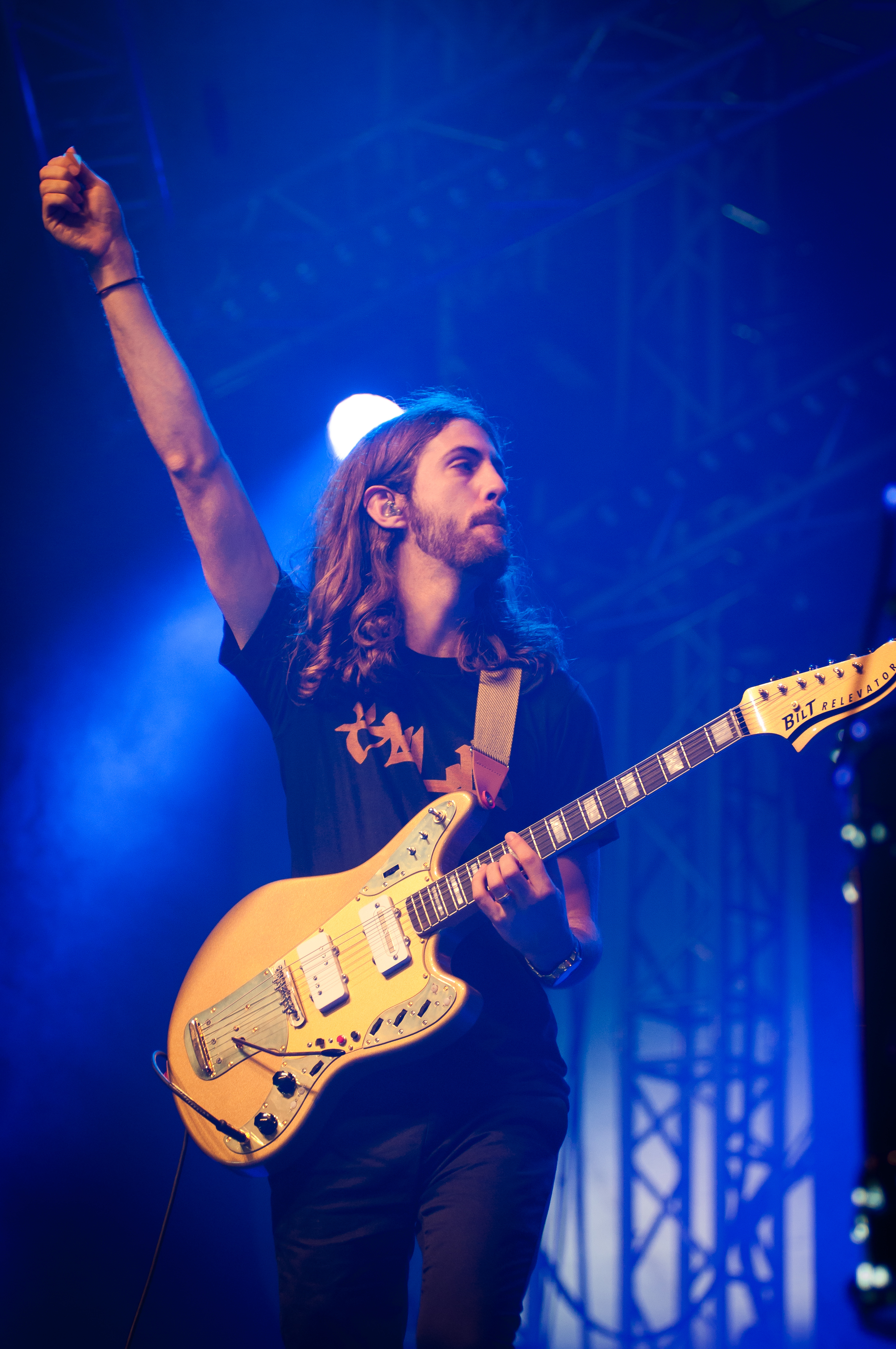 Guitarist Wayne Sermon of American alternative rock band Imagine Dragons performing at the 2013 Ilosaarirock festival in Joensuu, Finland.